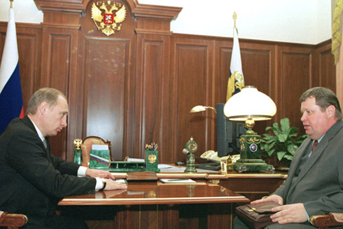 THE KREMLIN, MOSCOW. Vladimir Putin with Prosecutor General Vladimir Ustinov.